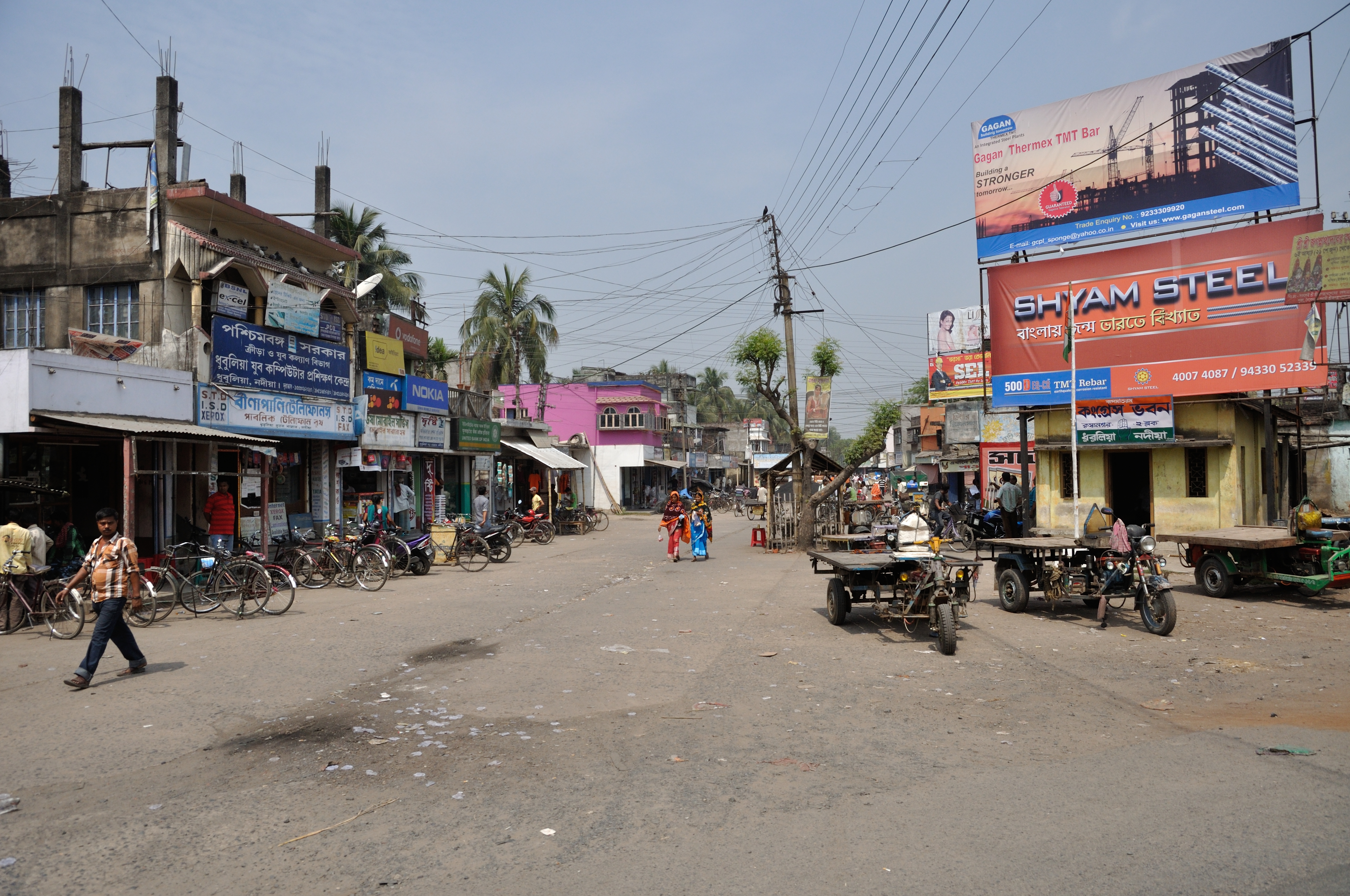 Photographed in West Bengal, India.